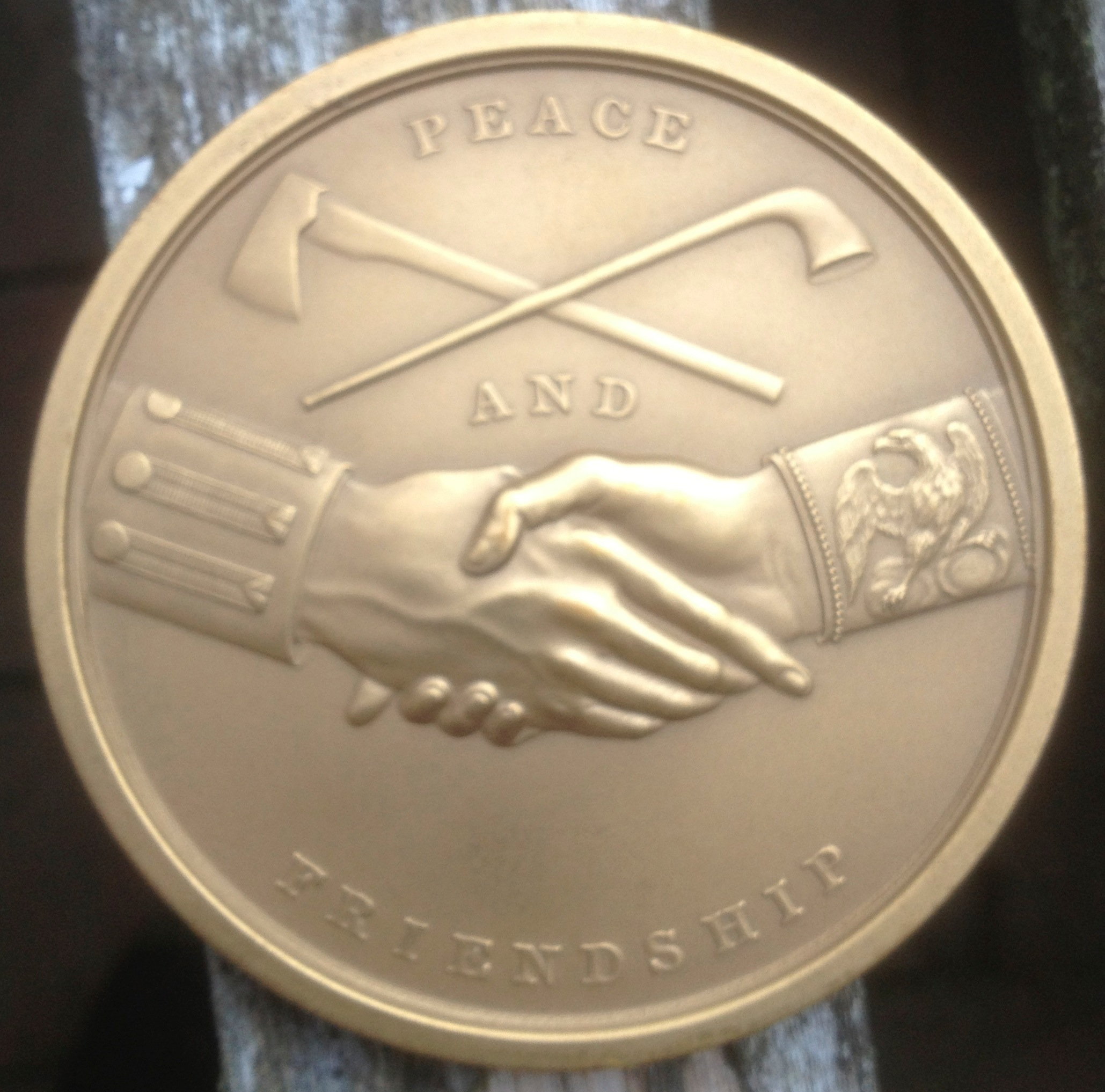 Thomas Jefferson Indian Peace medal reverse, later used as his entry in the Mint's Presidential Series of medals.